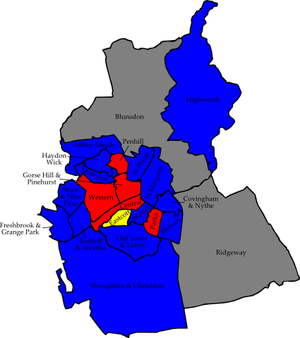 A map of the results of the 2007 Swindon Council election. Colour legend by wards won: Conservative party Labour party Liberal Democrats Wards in grey were not contested in 2007.